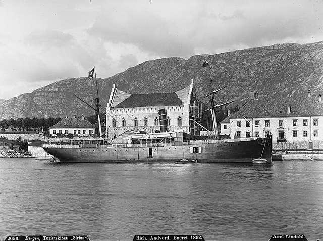 Norwegian coastal express ship (Hurtigruten) DS Sirius in Bergen